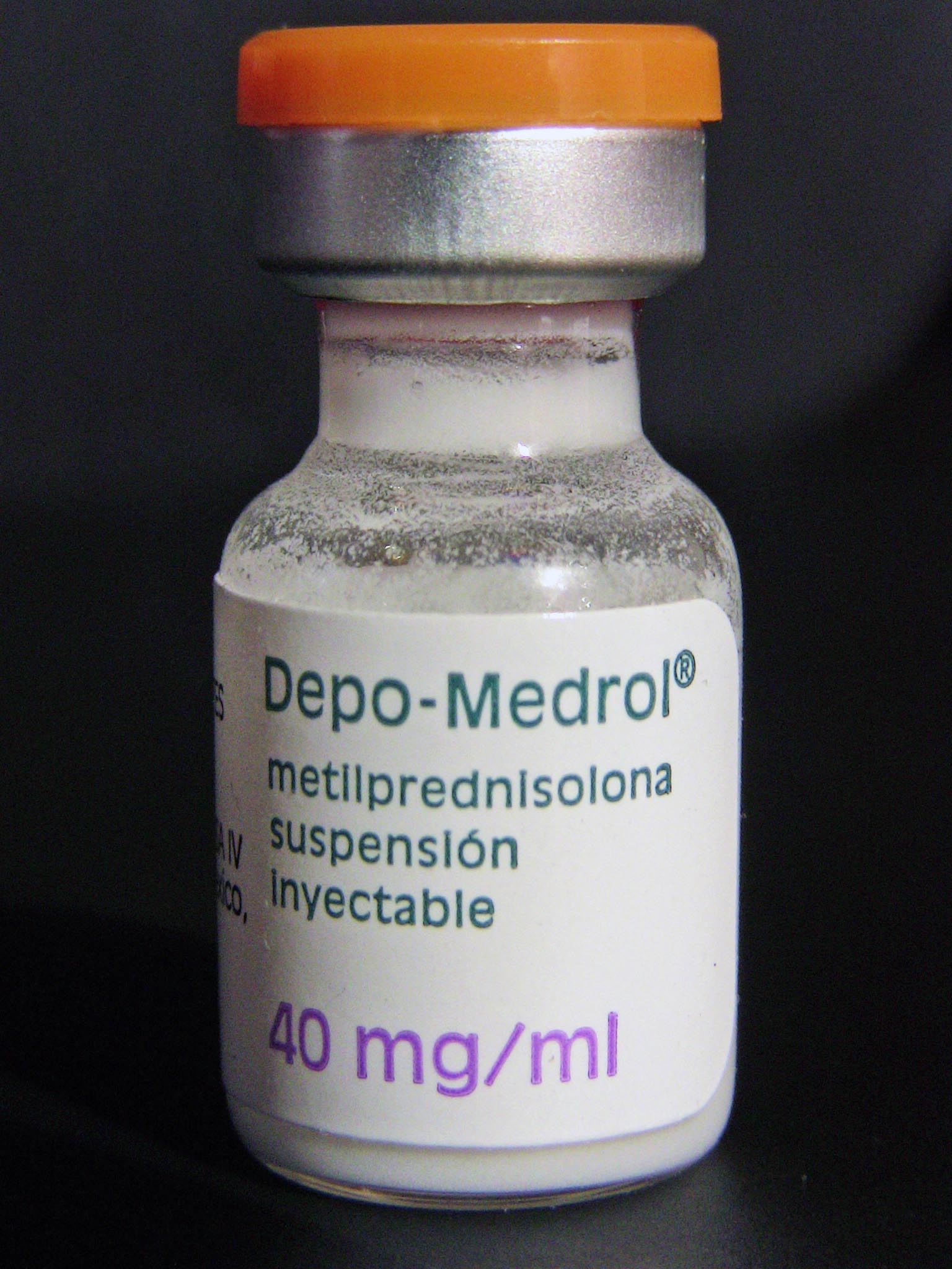 DEPO-MEDROL is an anti-inflammatory glucocorticoid for intramuscular, intra-articular, soft tissue or intralesional injection. It is available in three strengths: 20 mg/mL; 40 mg/mL; 80 mg/mL. It is "contraindicated" for intrathecal administration and "not recommended" for epidural administration due to reported severe adverse events to the FDA.